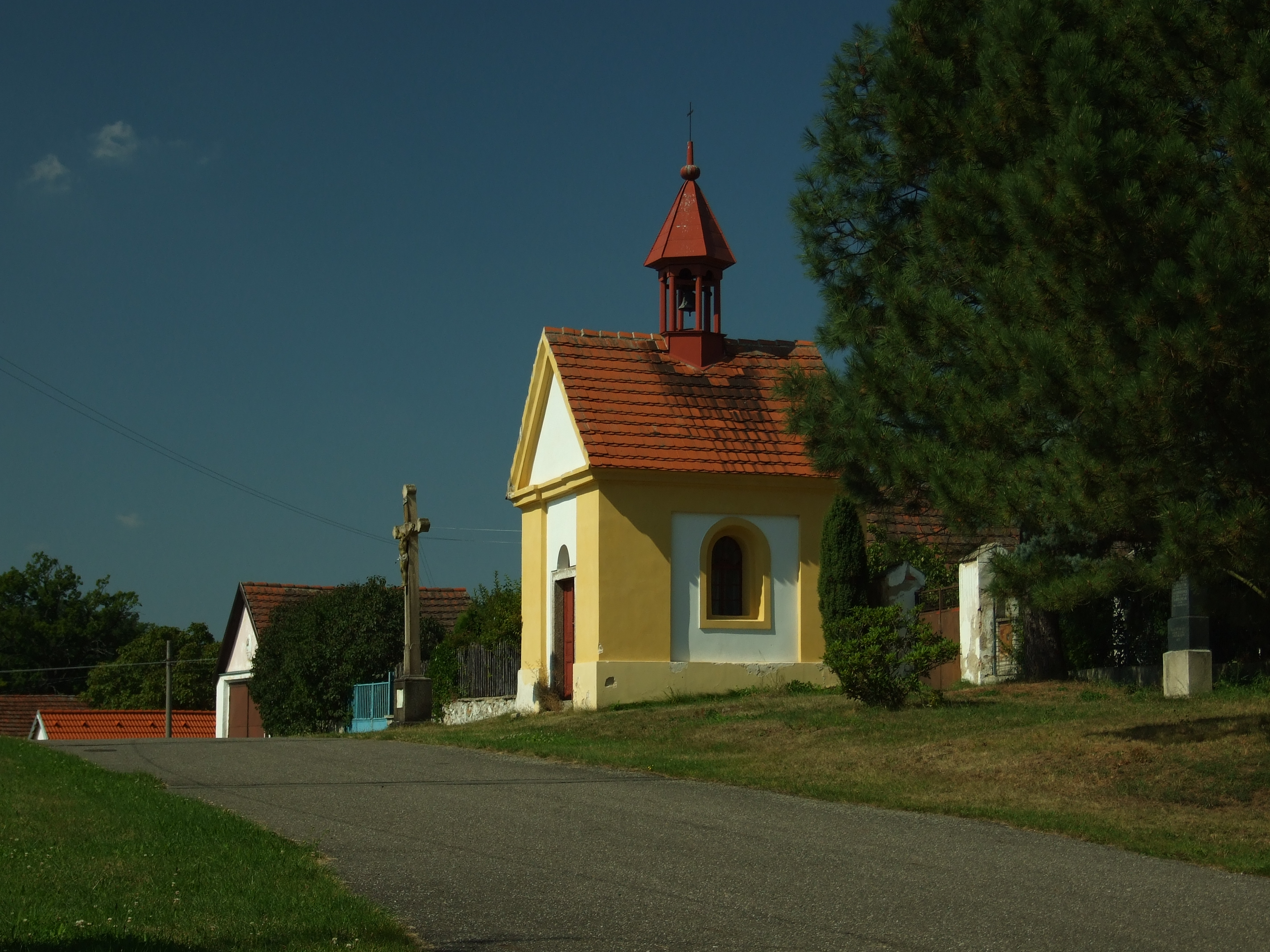 Čížová town - municipal part Zlivice, South Bohemian Region, CZhelp